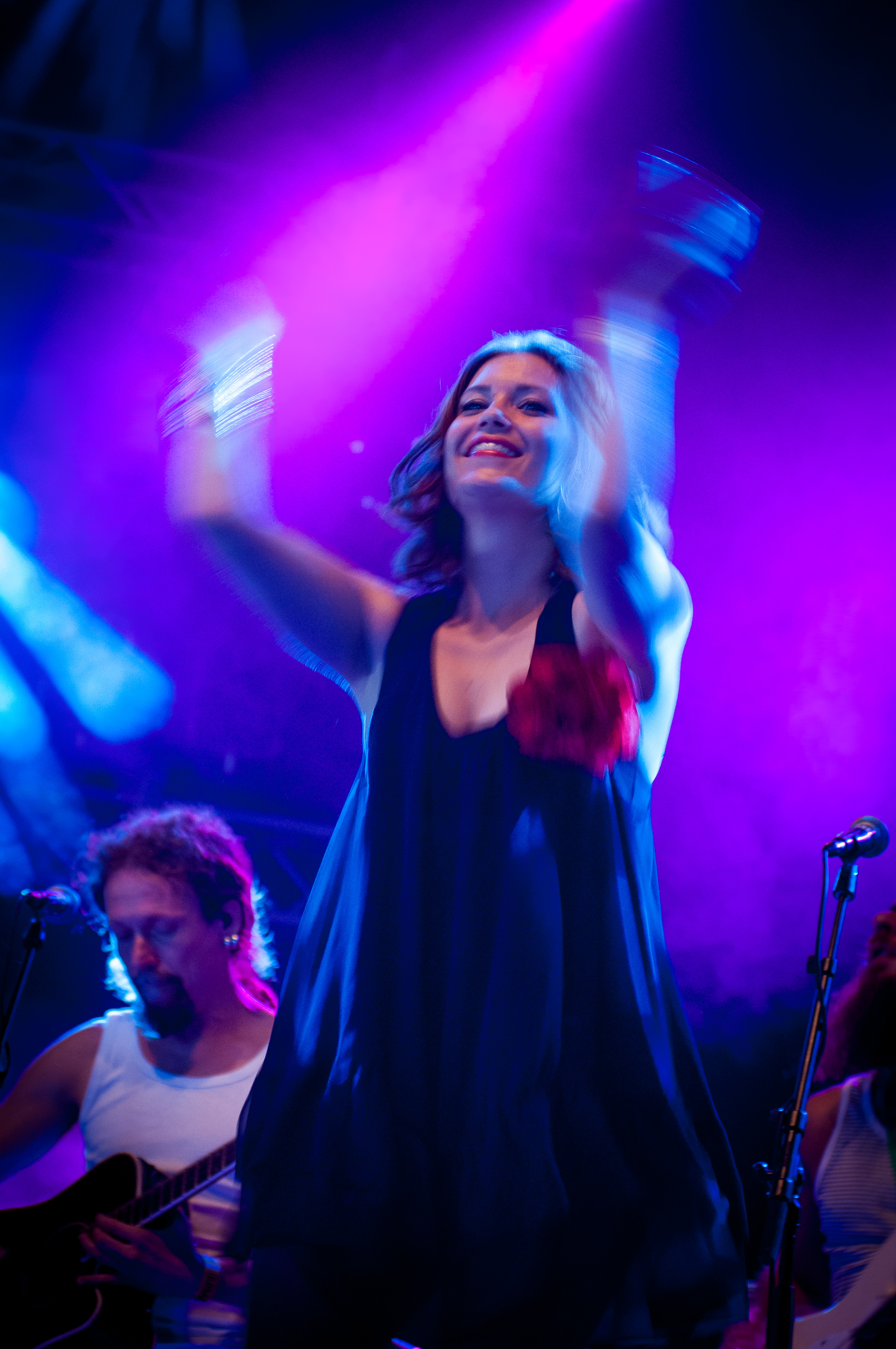 Finnish vocalist Laura Närhi performing at the 2011 Ilosaarirock festival in Joensuu, Finland.